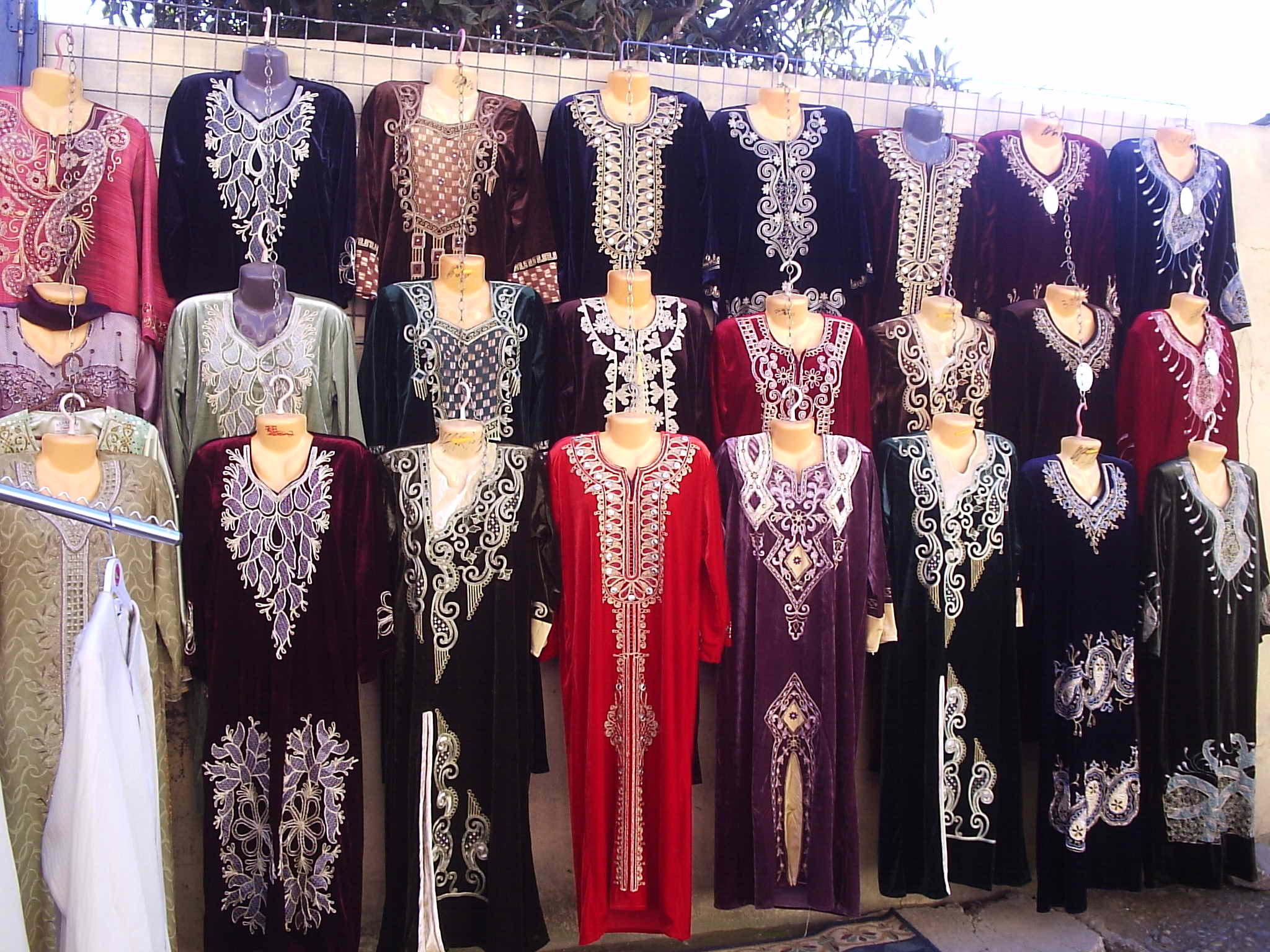 This is an image of Cultural Fashion or Adornment from Algeria